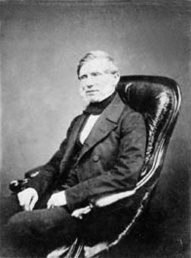 John Miers (1789-1879), British botanist